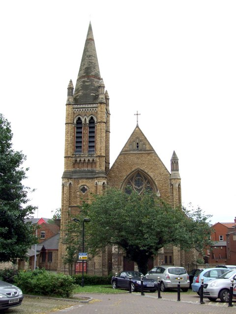 St Hugh, Lincoln 3 Photographed from the College car park.